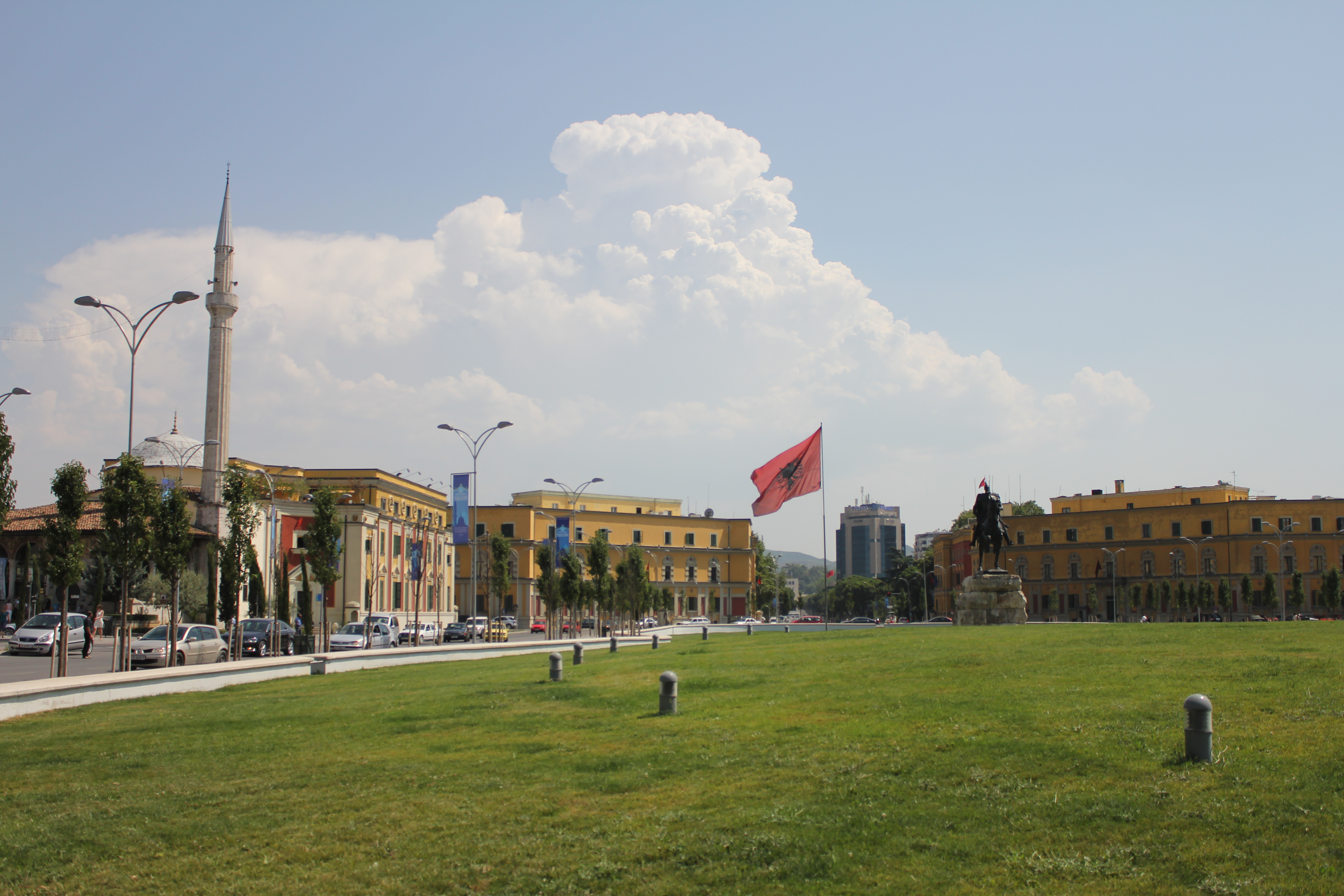 Skanderberg Square in Tirana, Albania